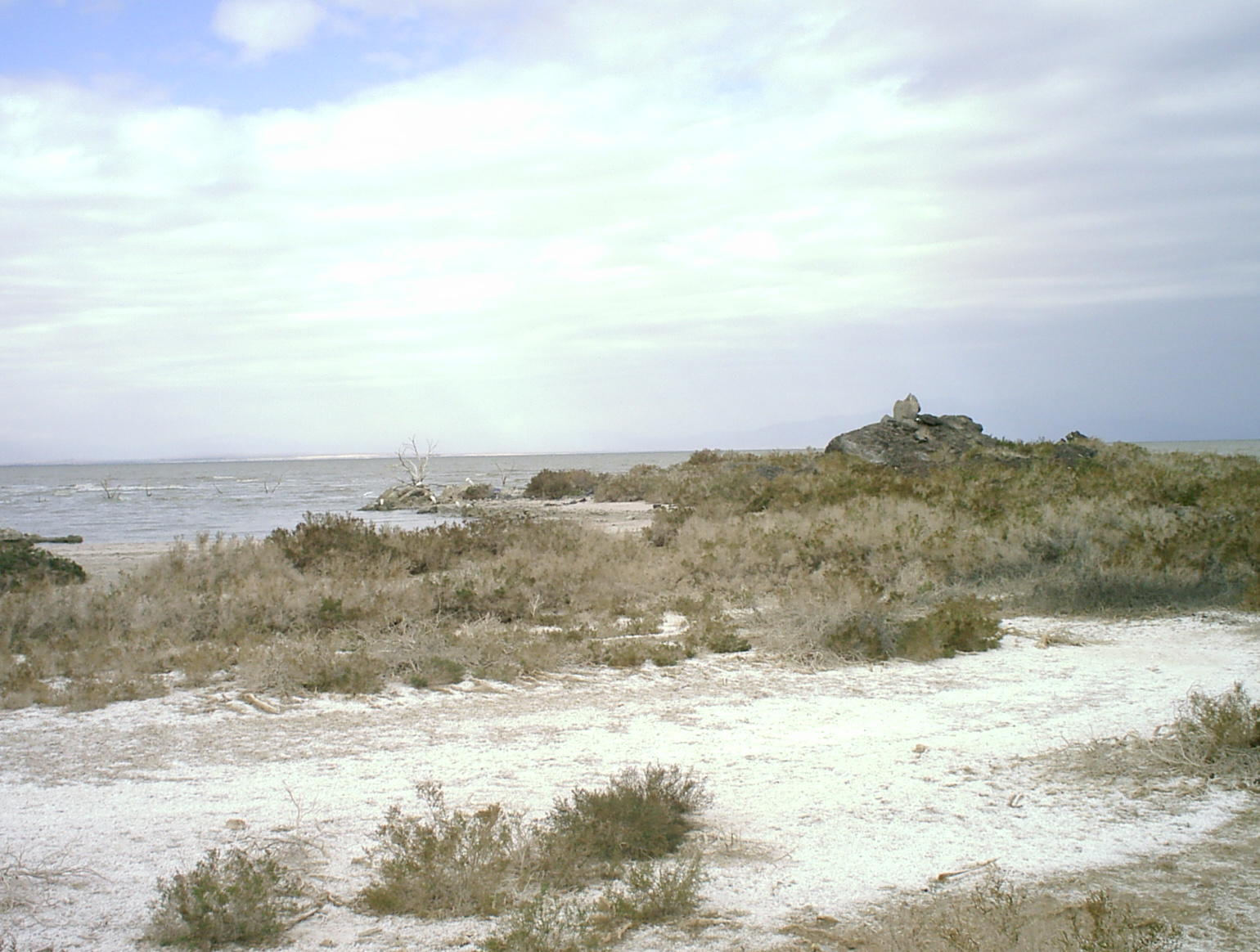 Salton Sea Alkali Flats — viewed from south shore looking north, from near Sonny Bono National Wildlife Refuge. In Imperial County, California.